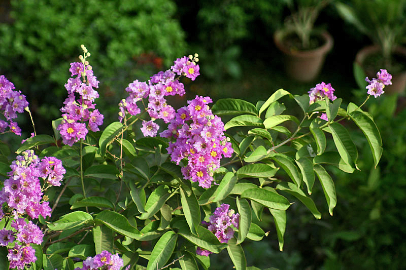 (Giant Crape-myrtle, Queen's Crape-myrtle or Banabá Plant) Lagerstroemia speciosa . Kolkata, West Bengal, India